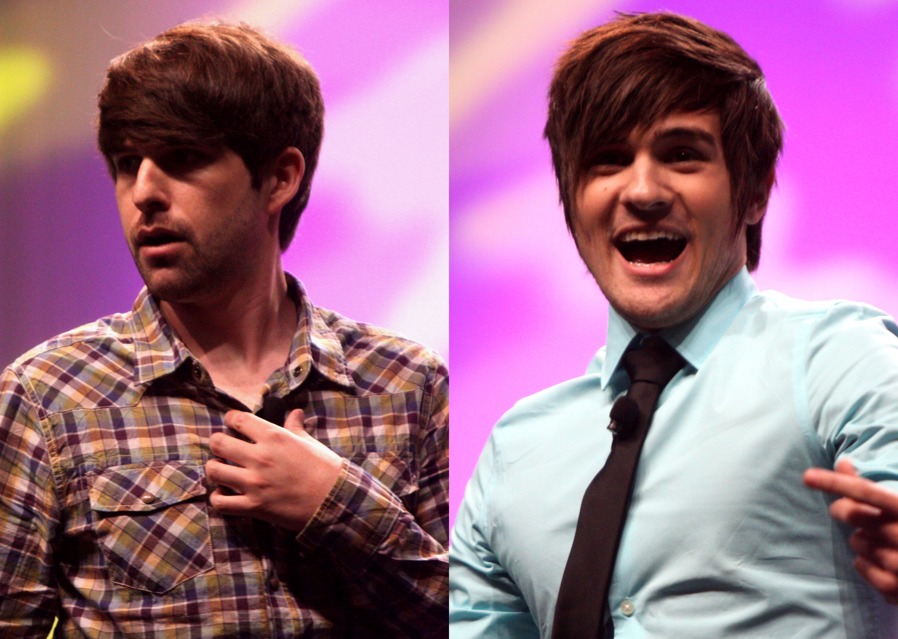 Anthony Padilla and Ian Hecox at the 2012 VidCon in Anaheim, California.